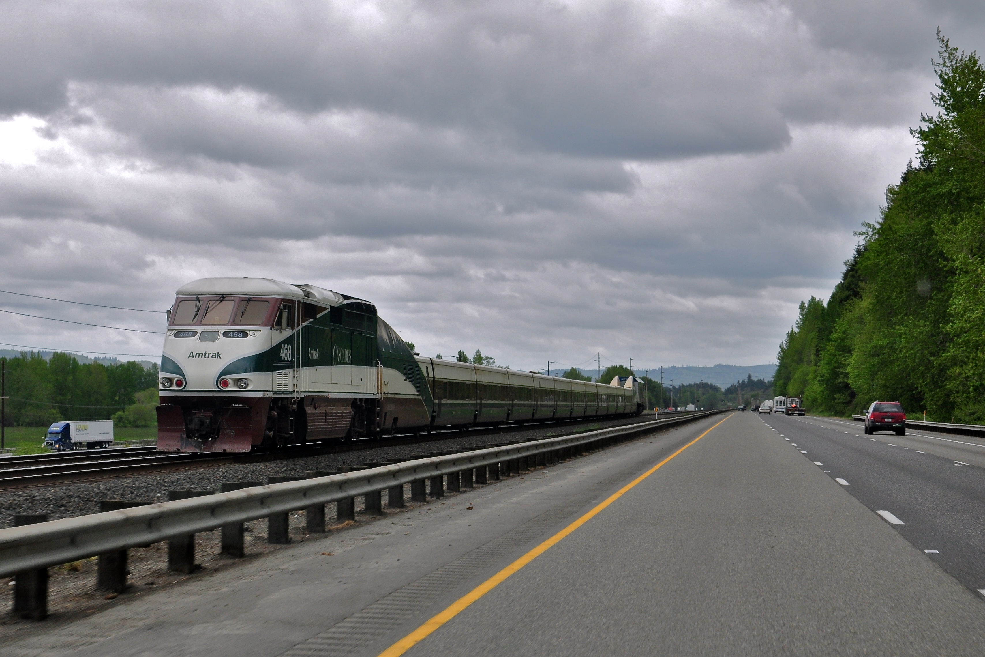 A northbound Amtrak Cascades train runs in the median of I-5 northwest of Woodland, Washington